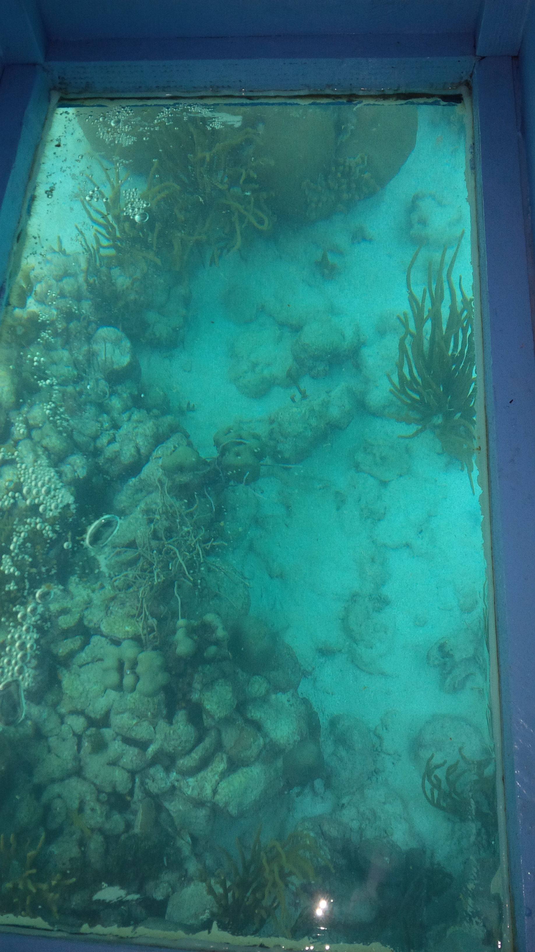 Photo of Buccoo Coral Reef Complex